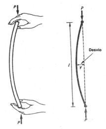 buckling